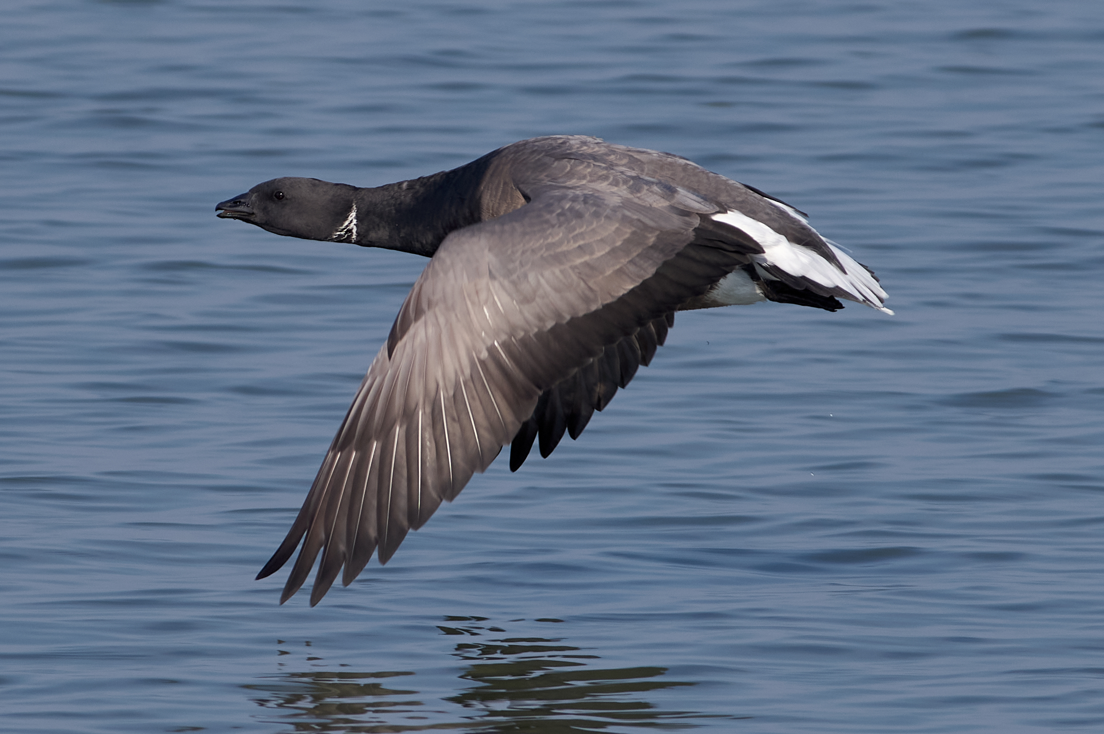 Adult dark-bellied Brent Goose (Branta bernicla bernicla) in flight, Northern German island Amrum